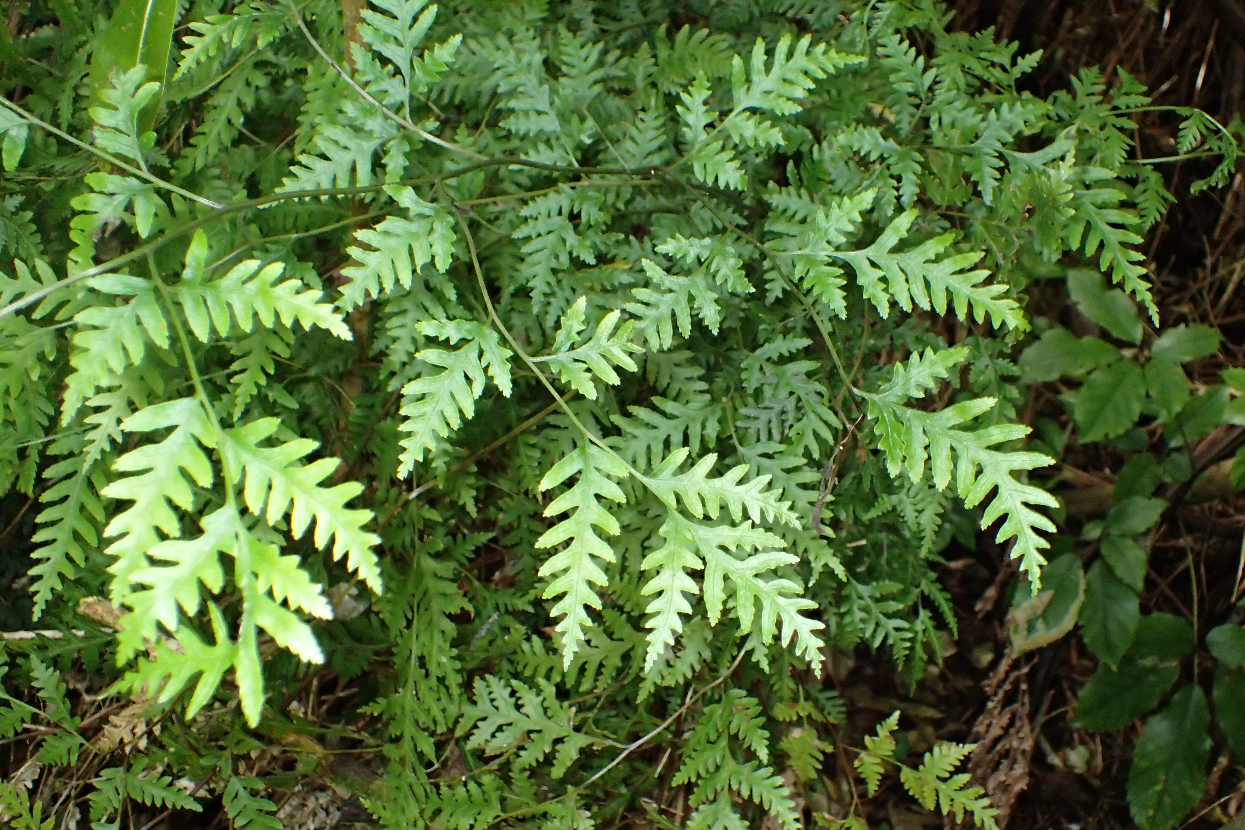 Pteris macilenta on Waikaremoana Lake, Hawkes's Bay (New Zealand)